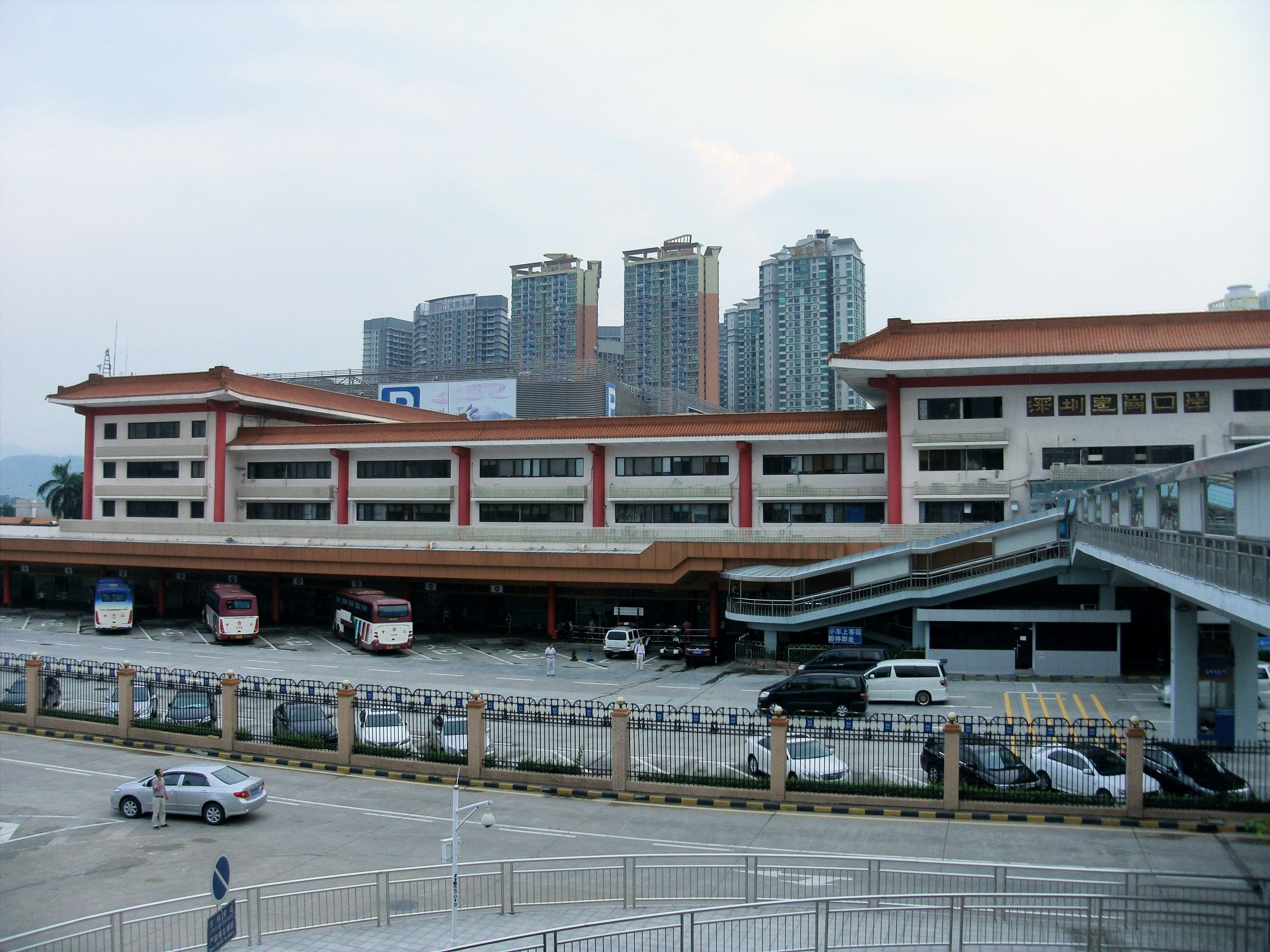 huanggang port from shenzhen